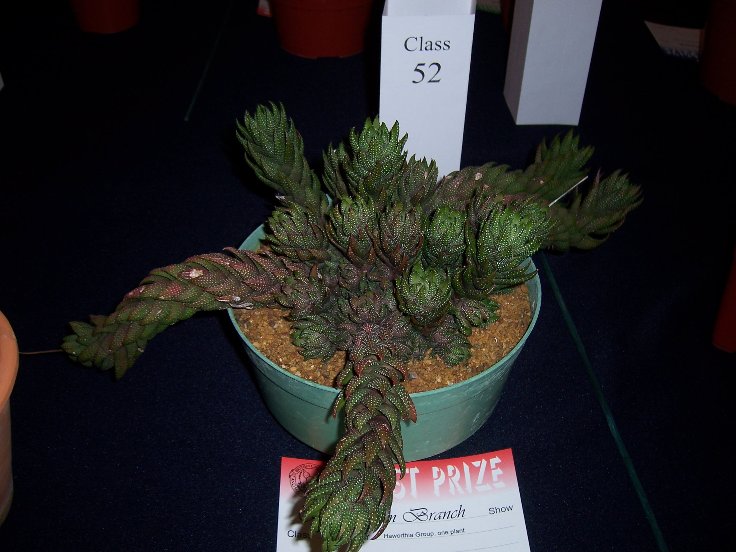 Haworthia Reinwardtii @Birmingham Branch Cactus Show